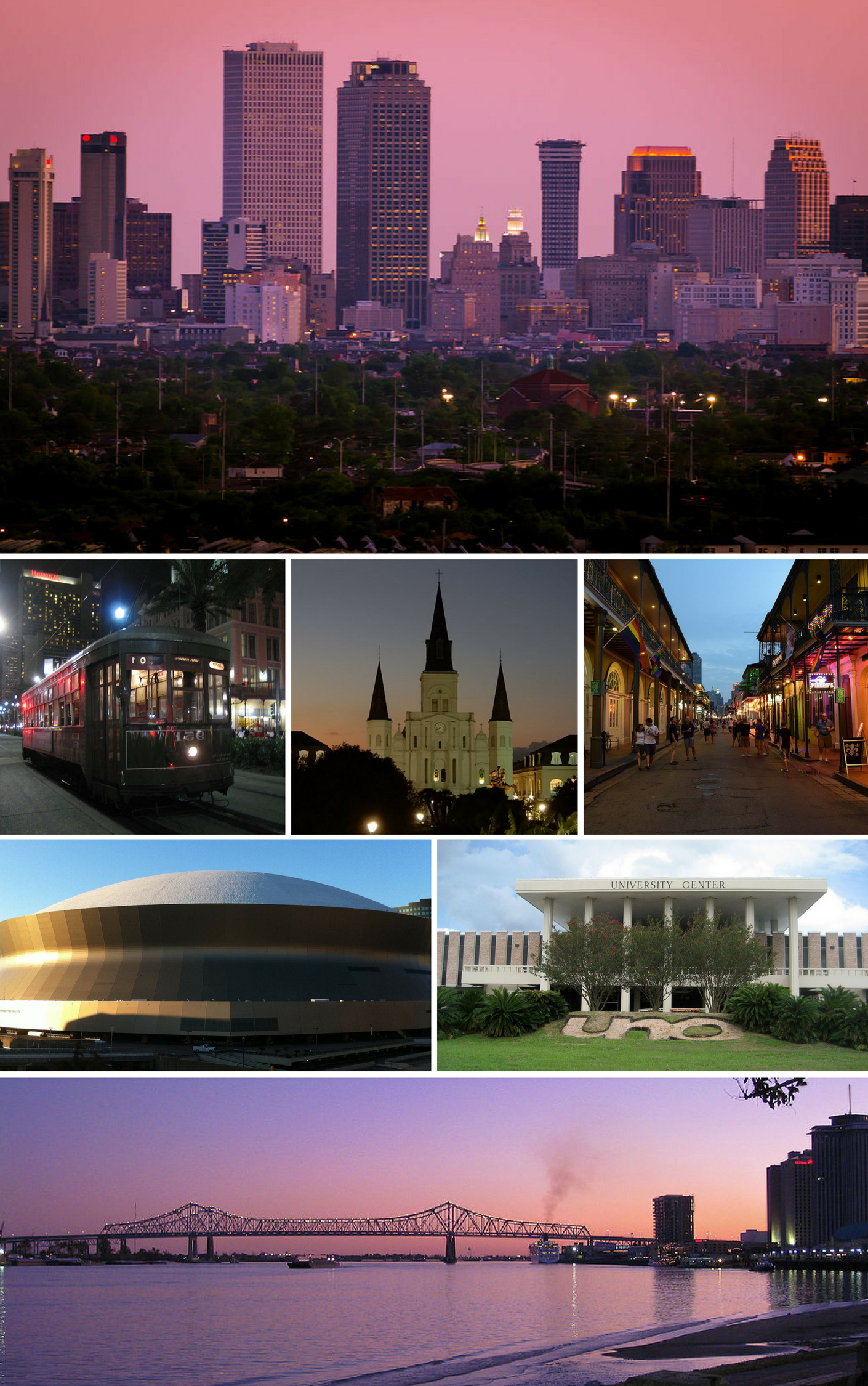 Images used in header collage are for the purpose of showcasing New Orleans.